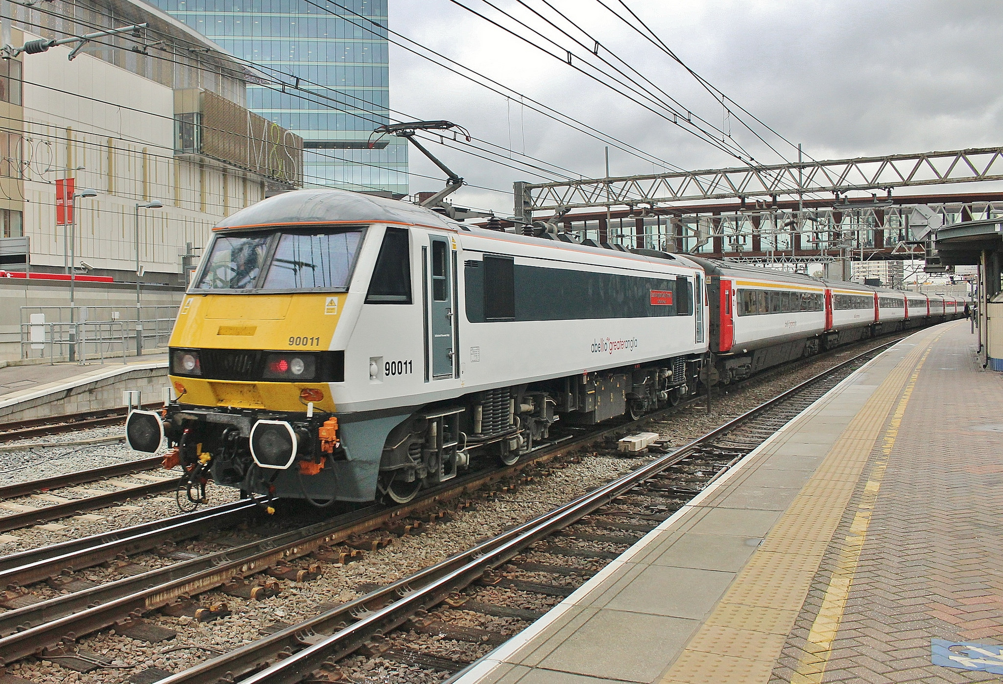 An Abellio Greater Anglia liveried class 90 hauling the Norwich to London intercity express service at Stratford station.